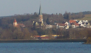 photo: Dingolfing